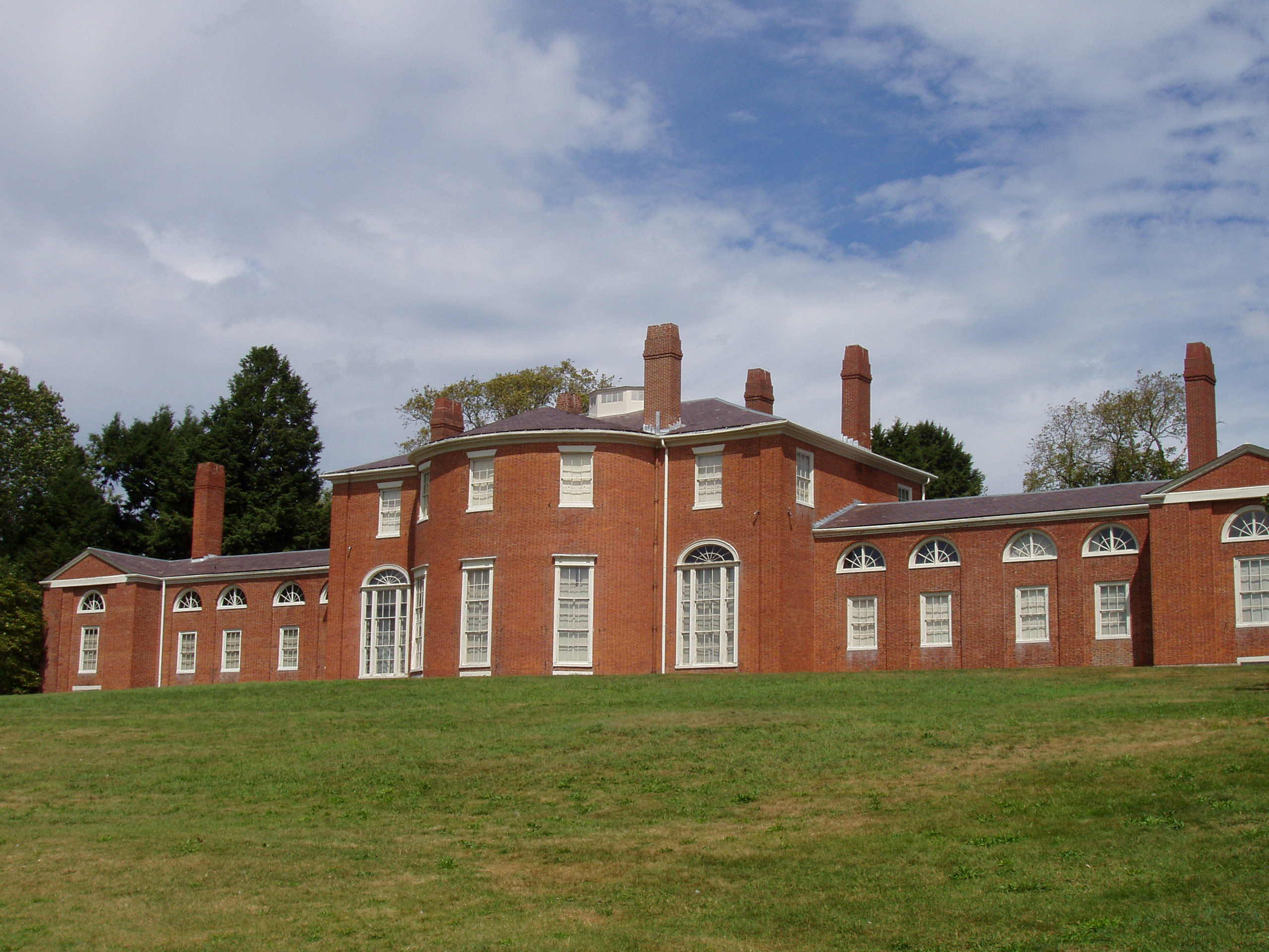 Gore Place, Waltham, Massachusetts - exterior taken from the lawn side. Photograph taken by me, August 2005.